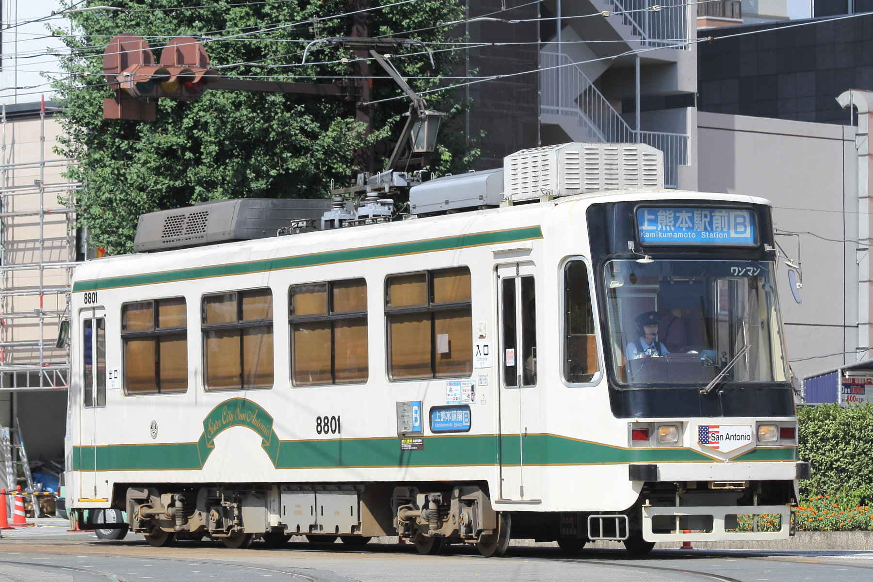 Kumamoto City tram No.8801